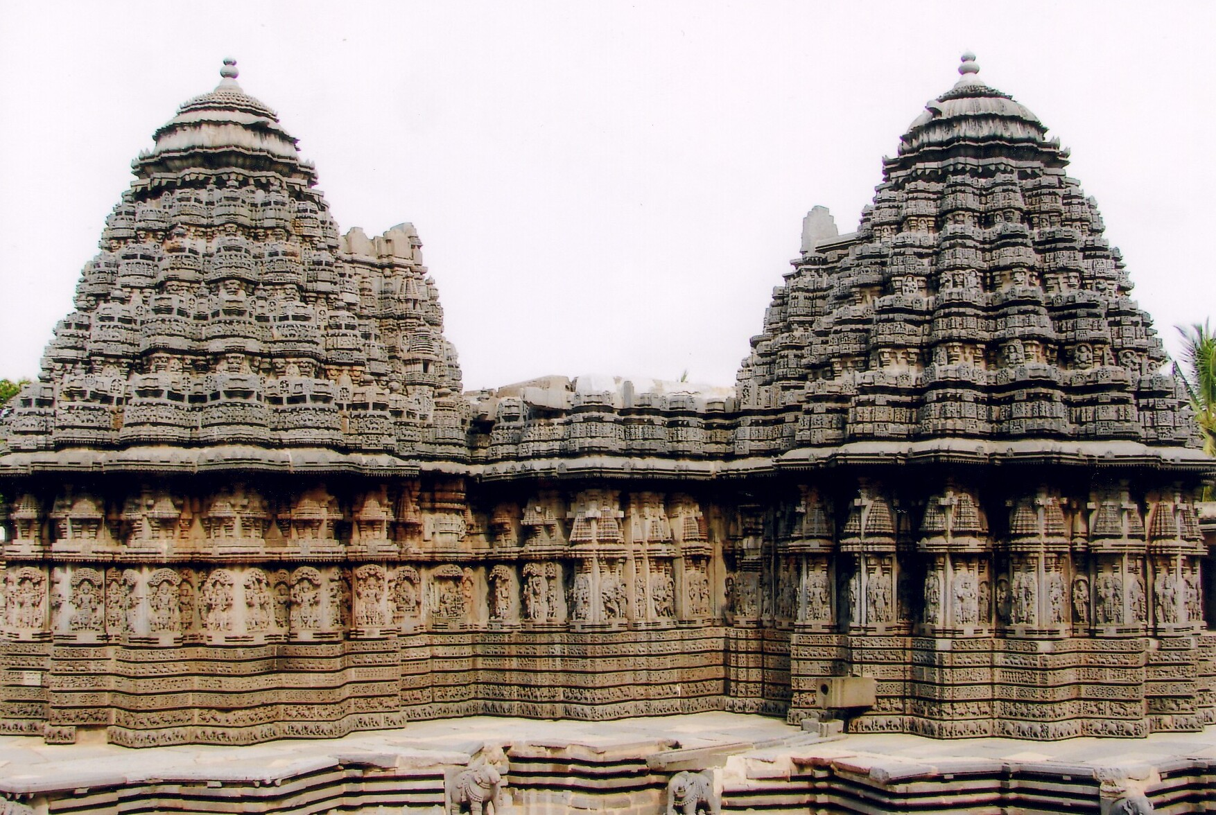 Photograph taken by self (Dinesh Kannambadi) at Keshava Temple (also called Chennakeshava or Chennakesava) in Somanathapura, Karnataka, India